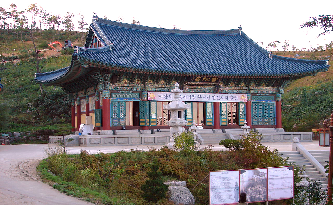 Temple hall on the grounds of Naksansa, nestled into the side of Naksan Mountain along the East Sea, not far from Sokcho South Korea